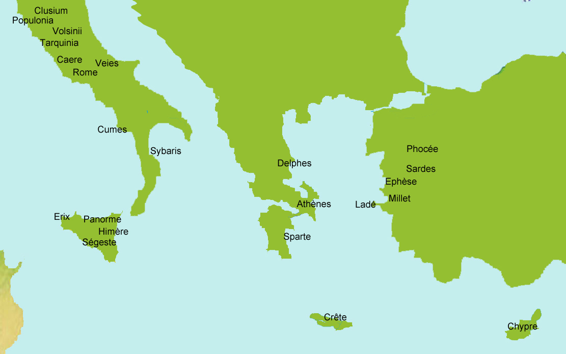 The main travels of Turms the Etruscan in ancient Mediterranean from the historical novel of Mika Waltari named The Etruscan. Simplified maps of ancient Meditteranean with indications of the principal locations described in the novel